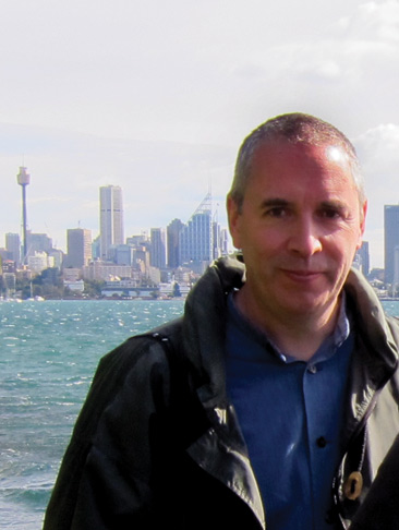 Jake Tilson, portrait